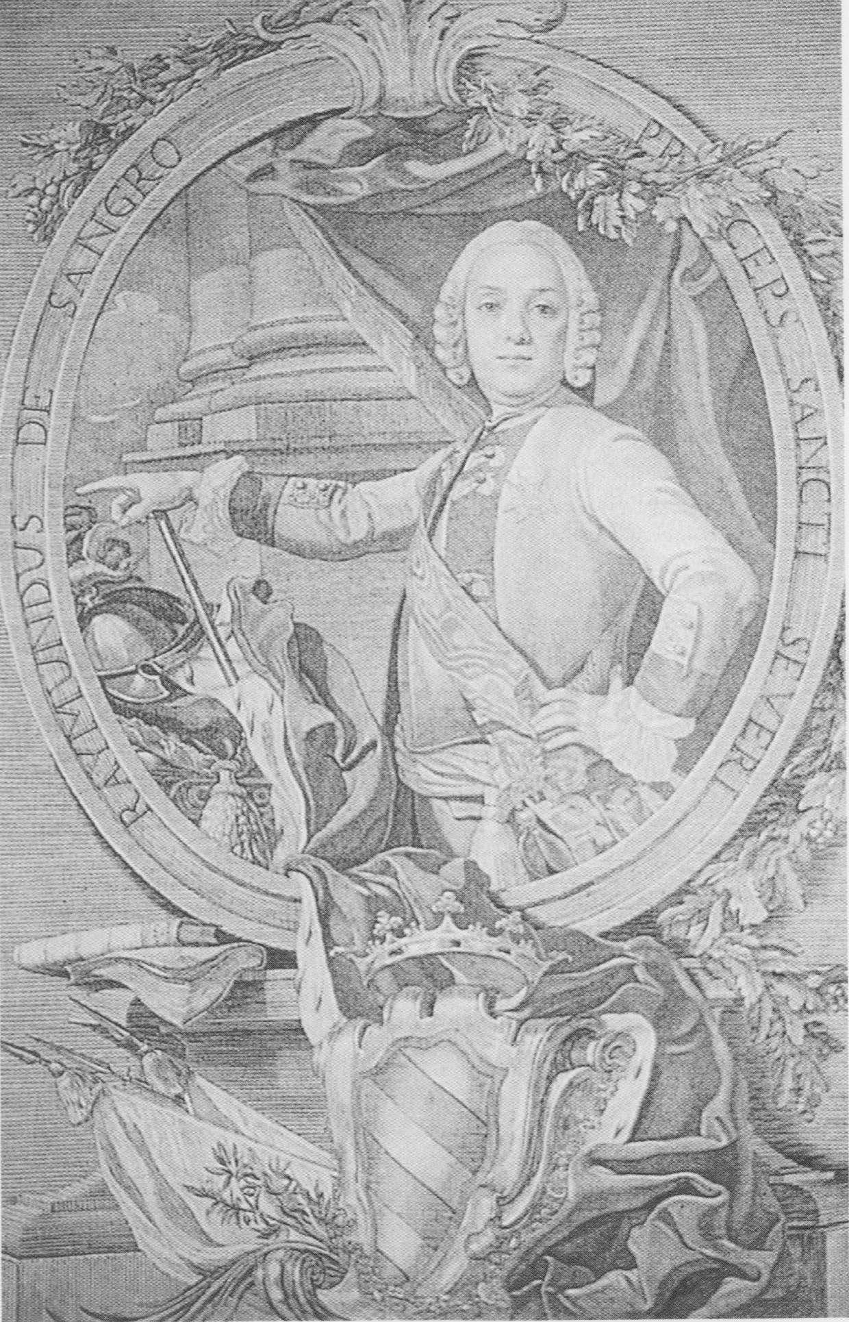 Portrait of Raimondo di Sangro (1710-1771)